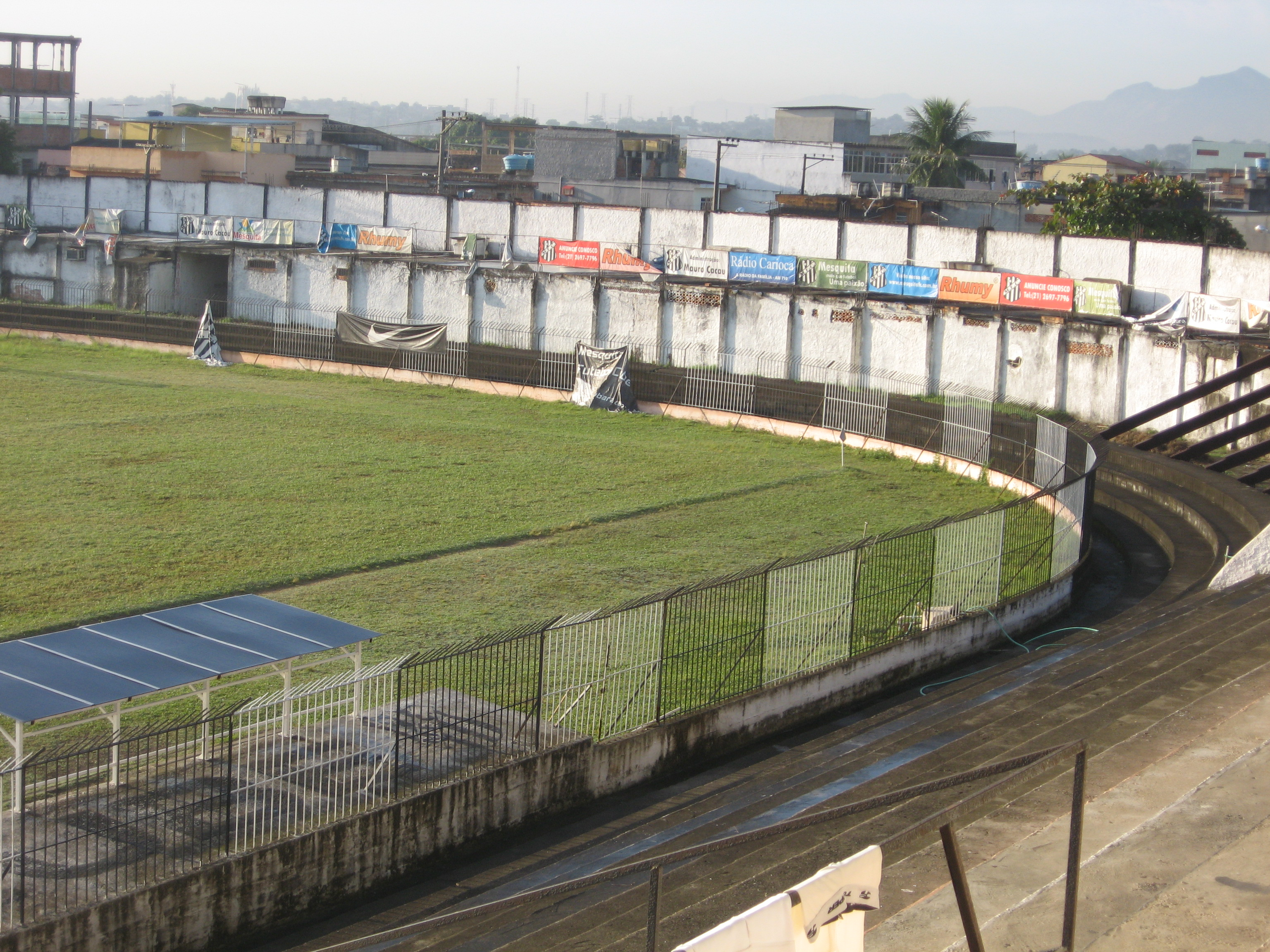 Nielsen Louzada Stadium, Mesquita, Rio de Janeiro (State), Brazil